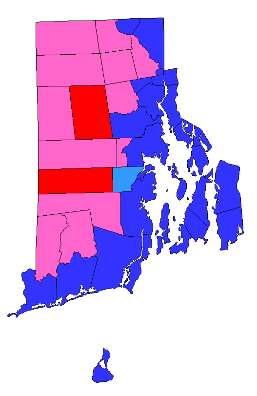 Results of the 2016 United States Presidential Election in Rhode Island by municipality. Highlights towns that flipped from 2012 as well.